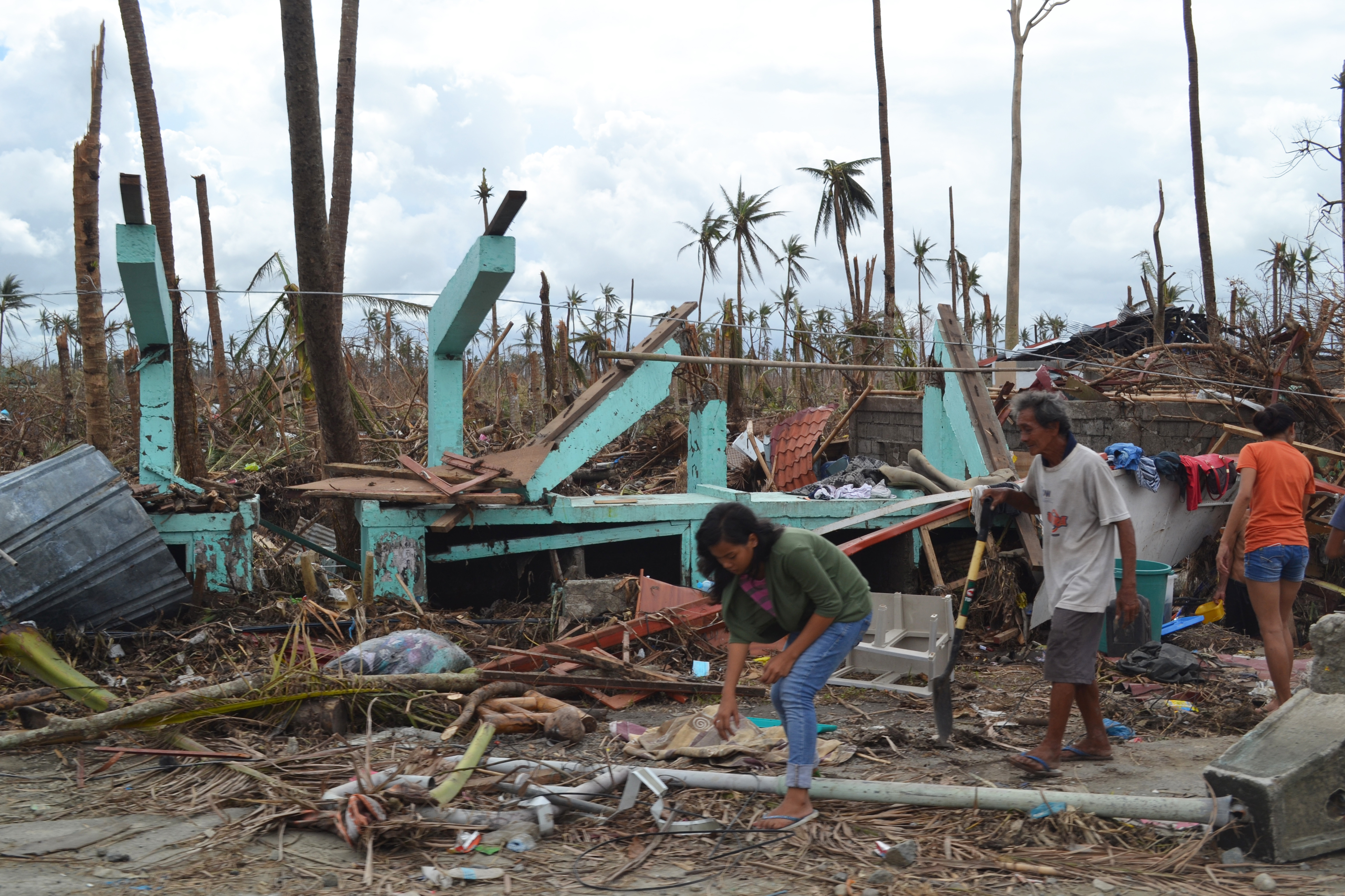 A destroyed house on the outskirts of Tacloban on Leyte island. This region was the worst affected by the typhoon, causing widespread damage and loss of life. Caritas is responding by distributing food, shelter, hygiene kits and cooking utensils. (Photo: Eoghan Rice - Trócaire / Caritas)